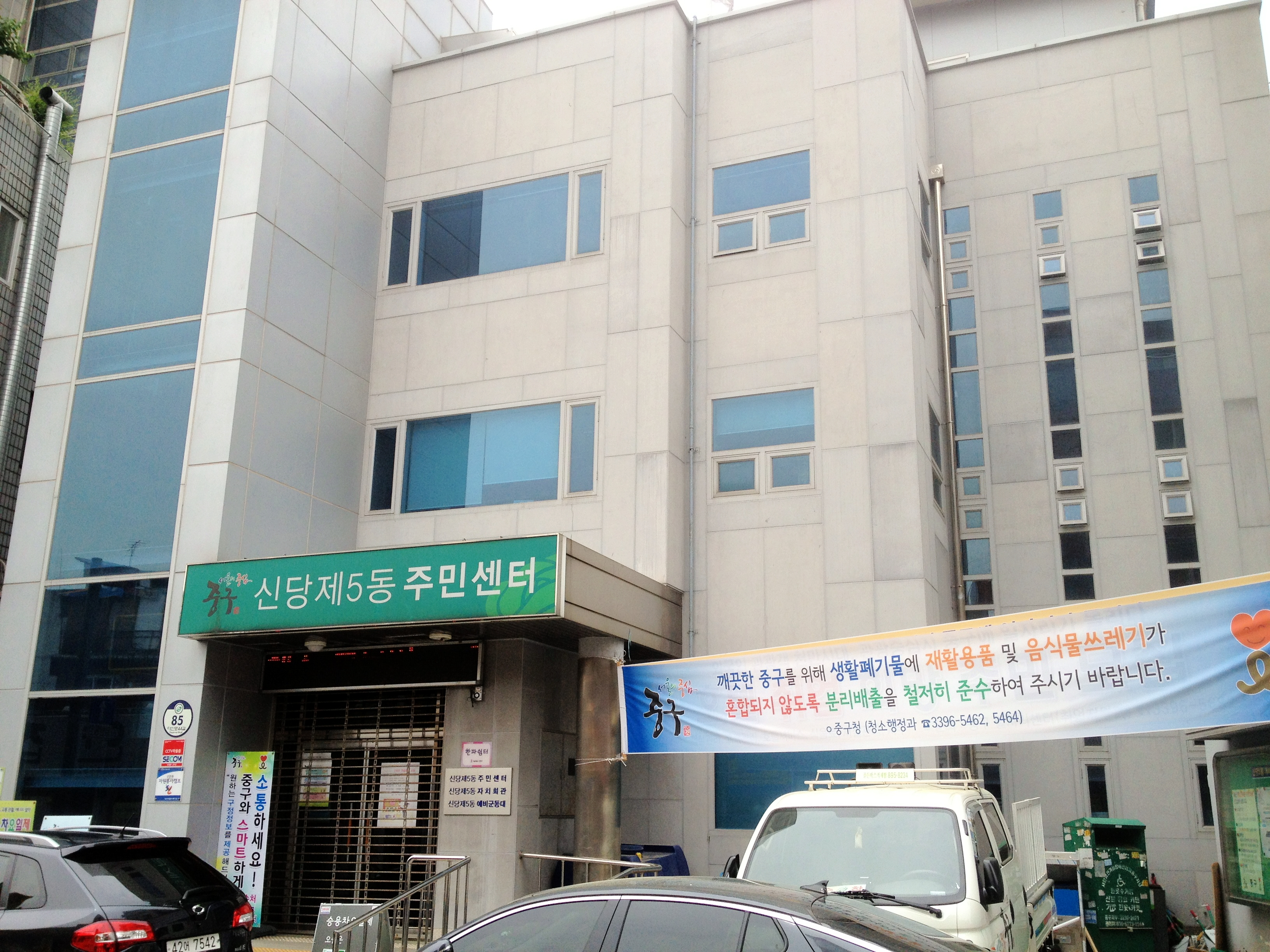 Sindang 5-dong Comunity Service Center(Jung-gu)